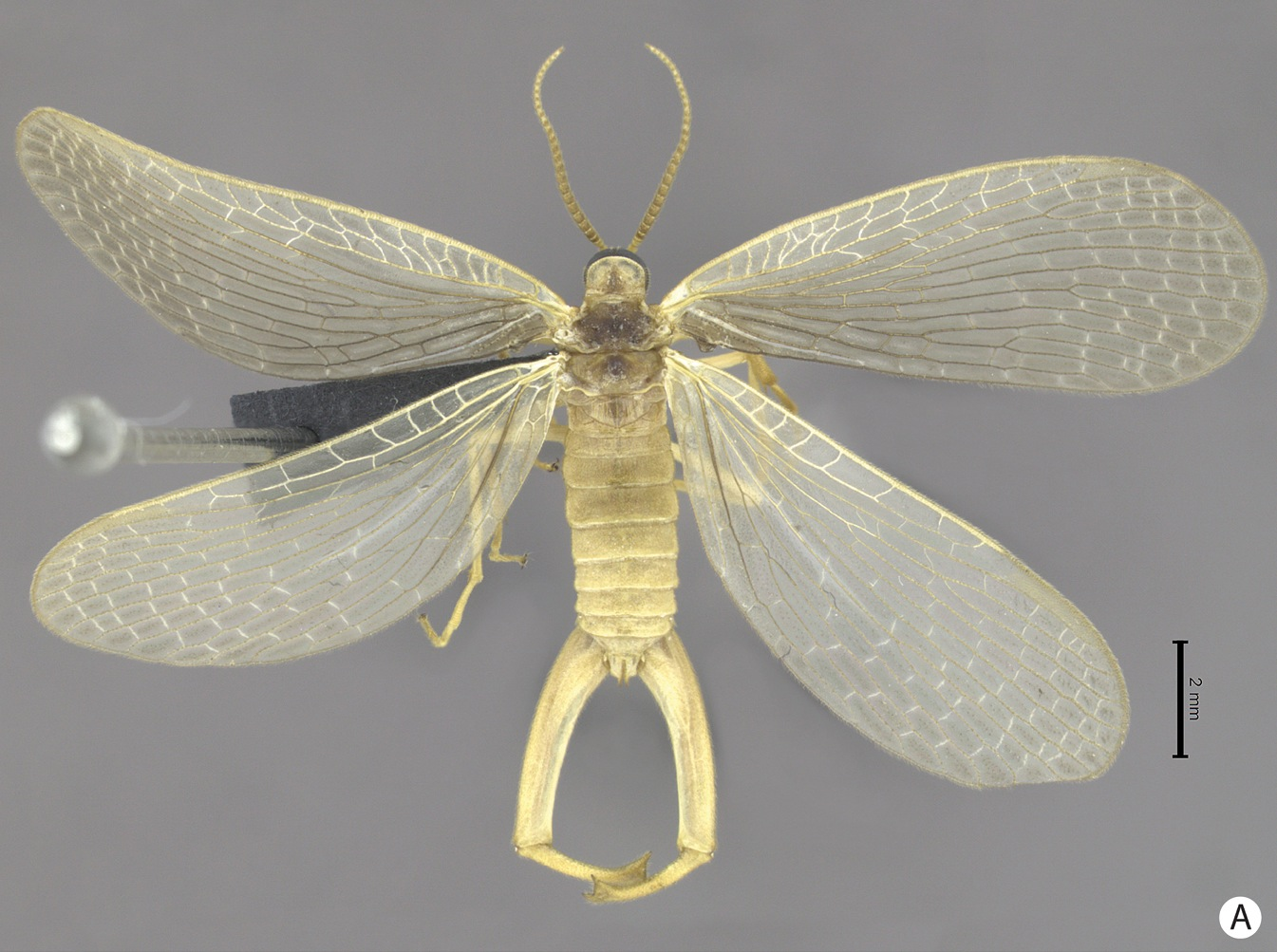 Merope tuber dorsal view: male